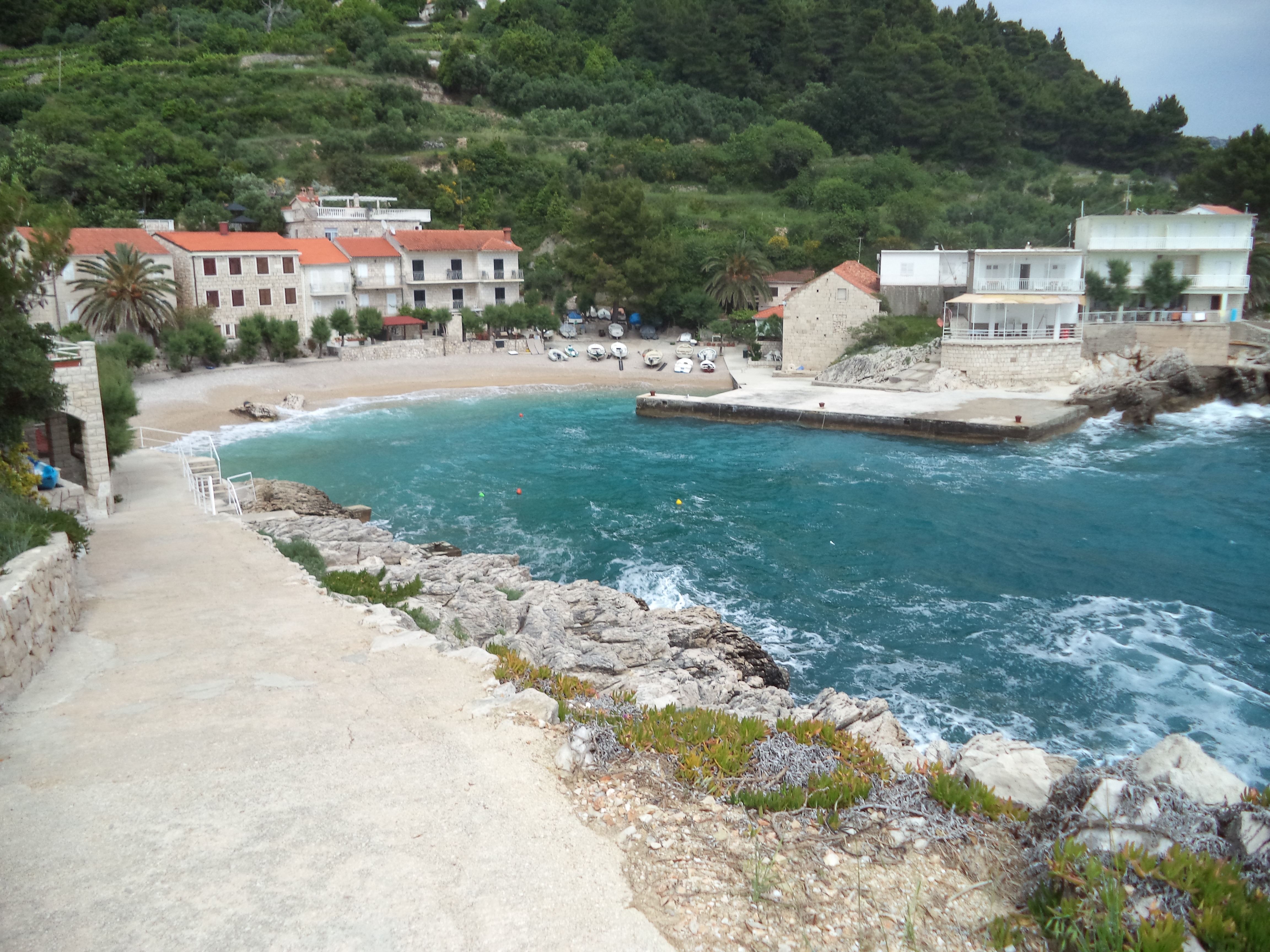 Podobuče